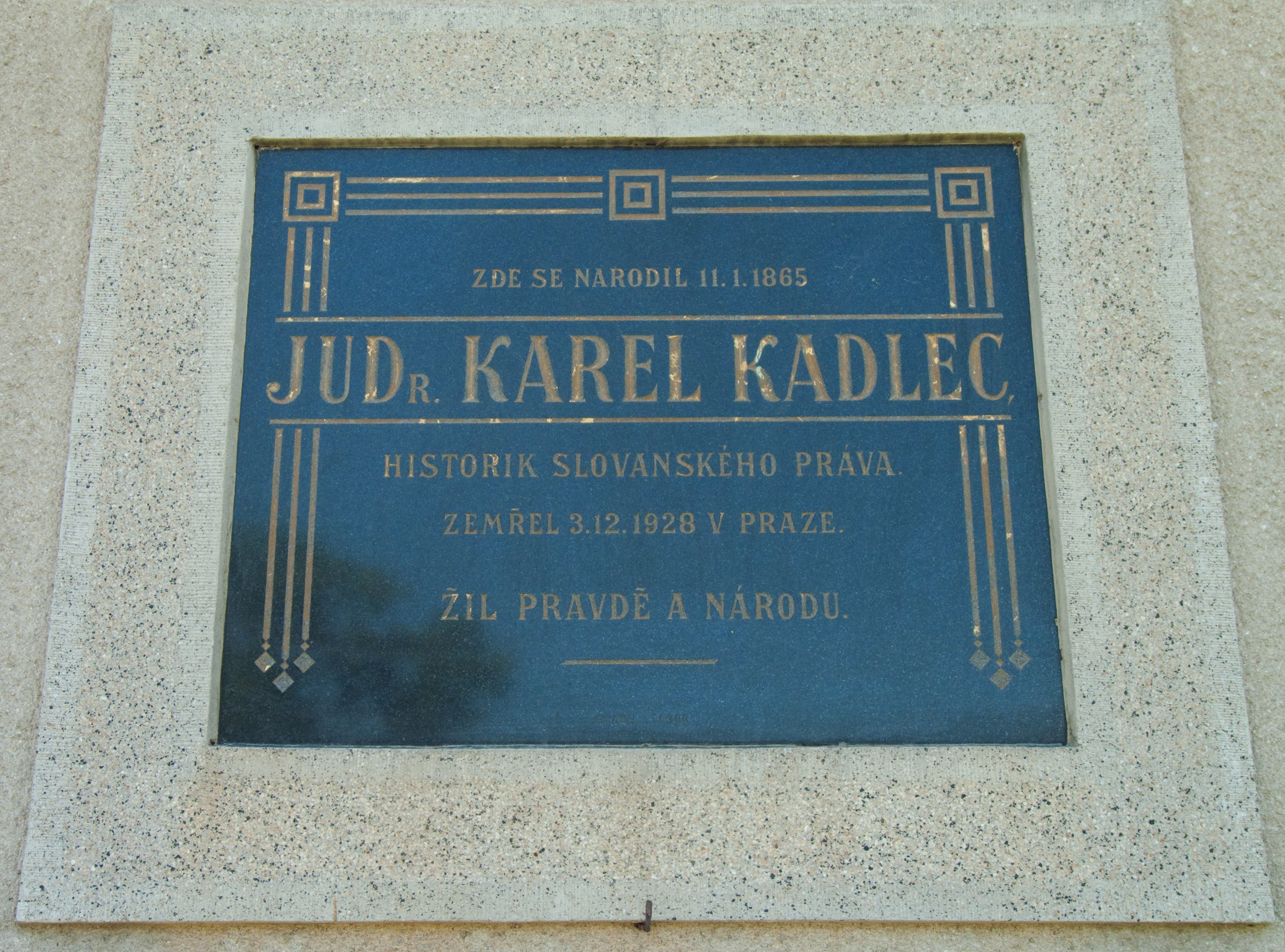 Commemorative plaque in the village of Přehořov, Tábor district, Czech Republic, bearing text in memory of JUDr. Karel Kadlec, situated on his native house No 12